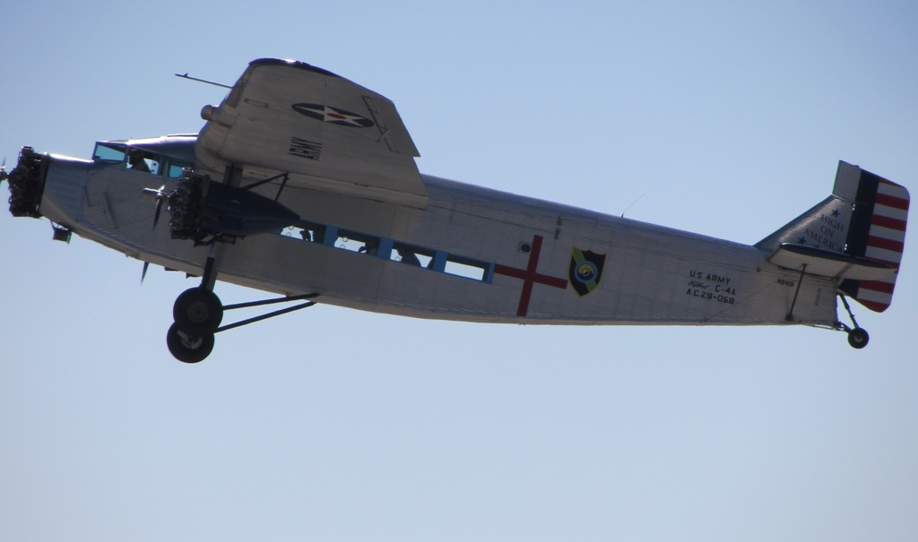 Ford C-4A